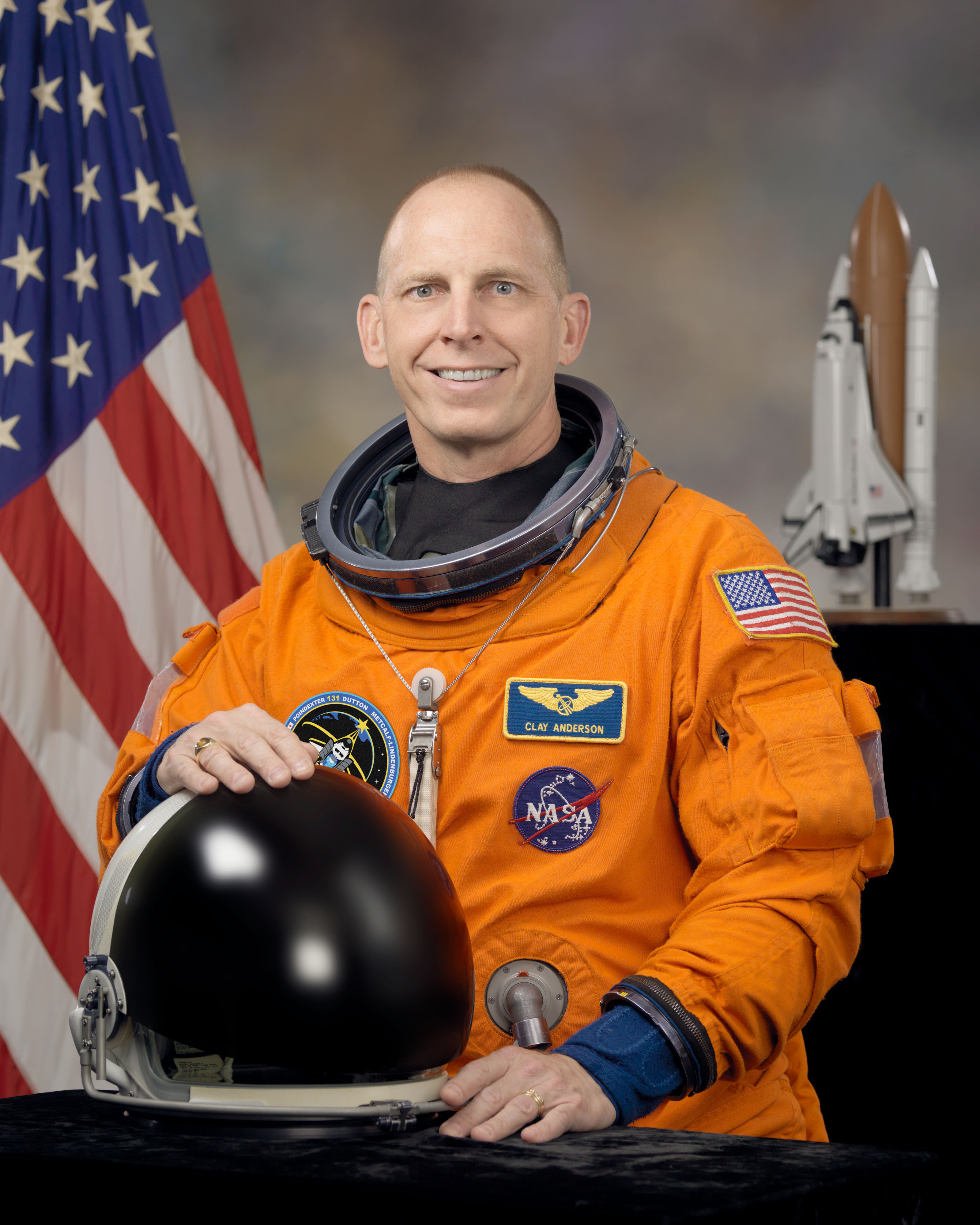 NASA astronaut Clayton C. Anderson, mission specialist